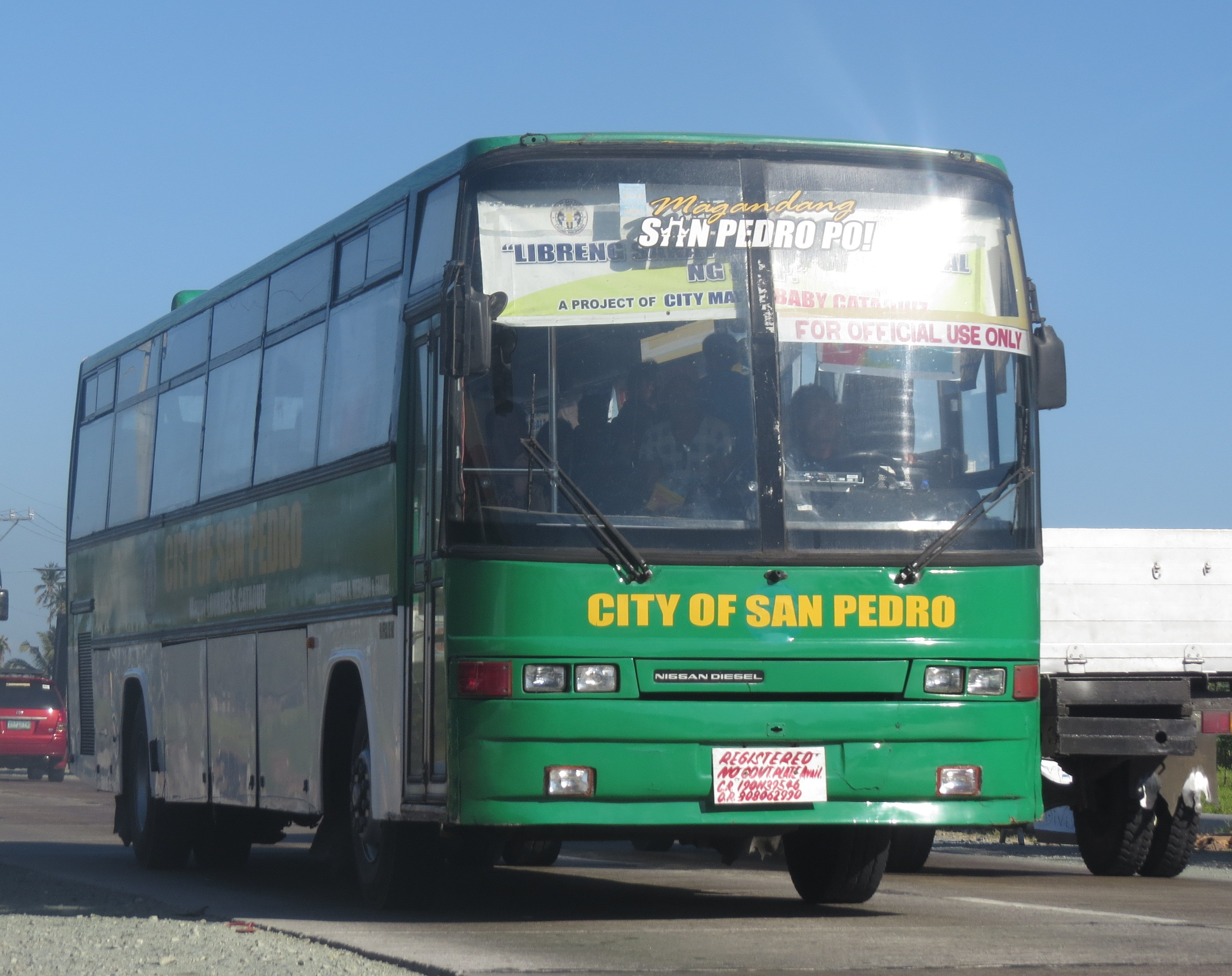 City of San Pedro Service Bus, former Greenstar Bus fleet